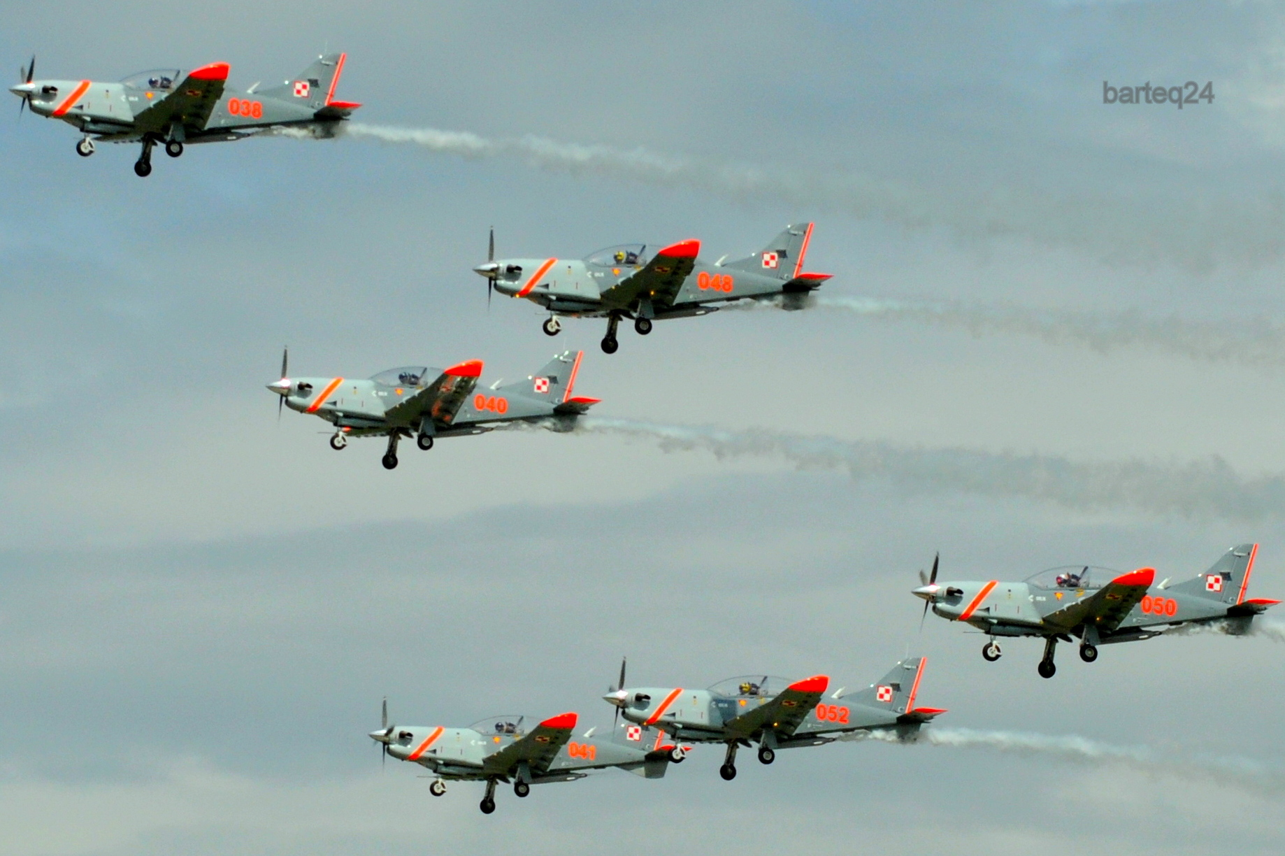 Orlik Aerobatic Team